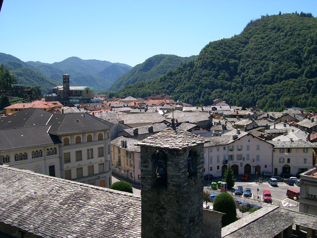 Ian Wilson, taken during my vacation to Italy in August 2005. The picture was taken from Osteria Muntisel, a friends restaurant.